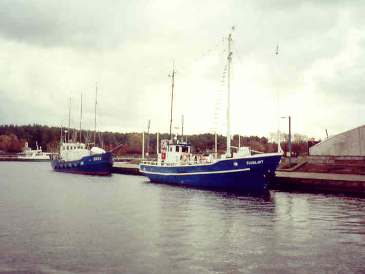 Juku and Suurlaht at quay in Pirita Tallinn bevor 14 May 2007 (Stefani ? in the background)